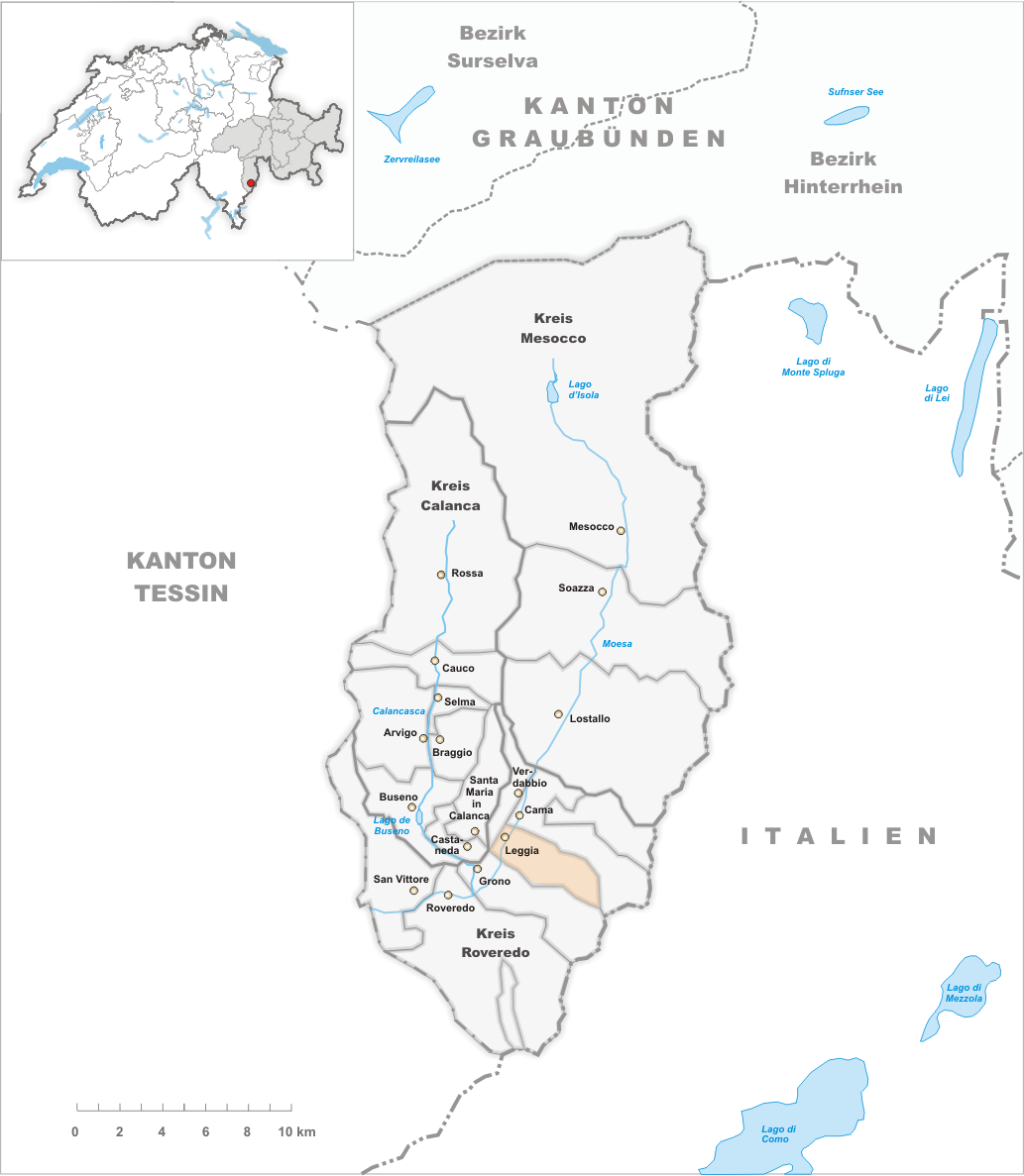 Municipality Leggia